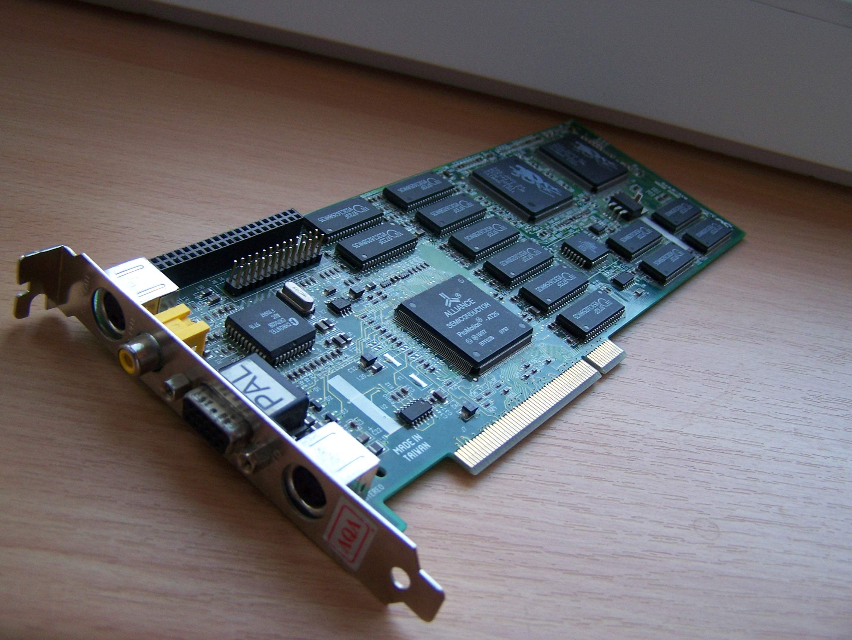 Graphics cards - Voodoo Rush